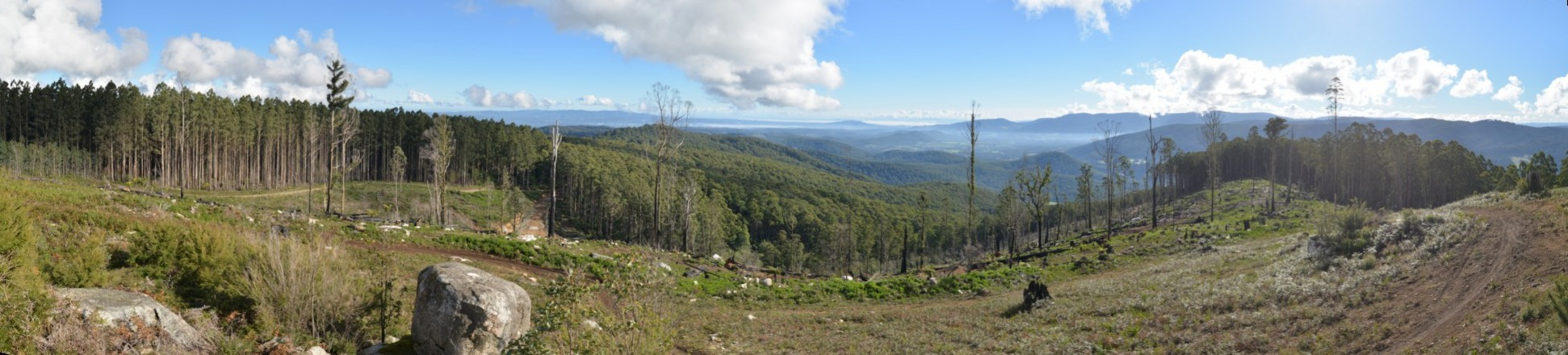 Mount Beenak panorama looking towards Yarra Valley